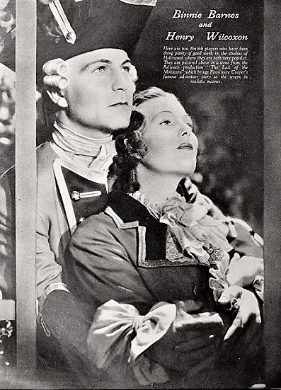 Henry Wilcoxon e Binnie Barnes in "The Last of the Mohicans"